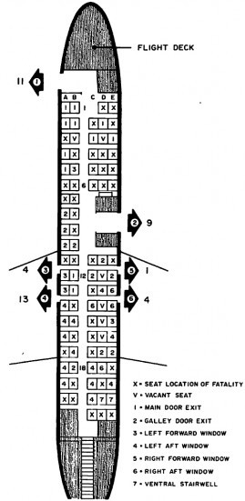 Flight 227 crashed on landing at Salt Lake City International Airport, causing the deaths of 43 of the 91 people on board.